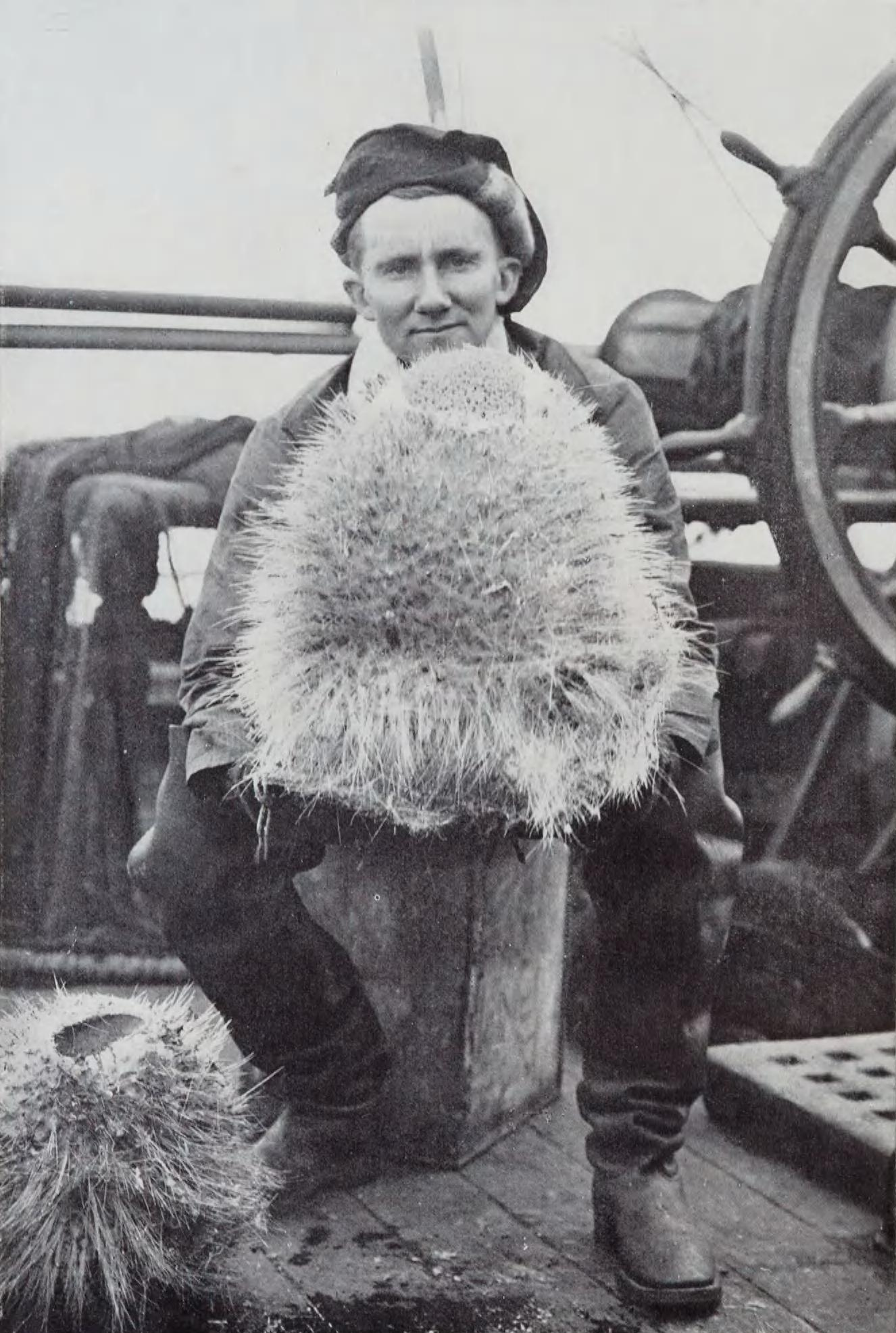 Biologist D. G. Lillie, of the Terra Nova expedition, with siliceous (glass) sponges. The sponge he is holding is probably Rosella villosa [1]